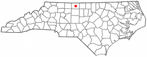 Category:North Carolina Dot Maps